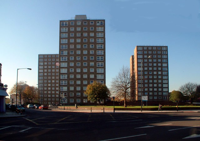 Ledbury Estate SE15.